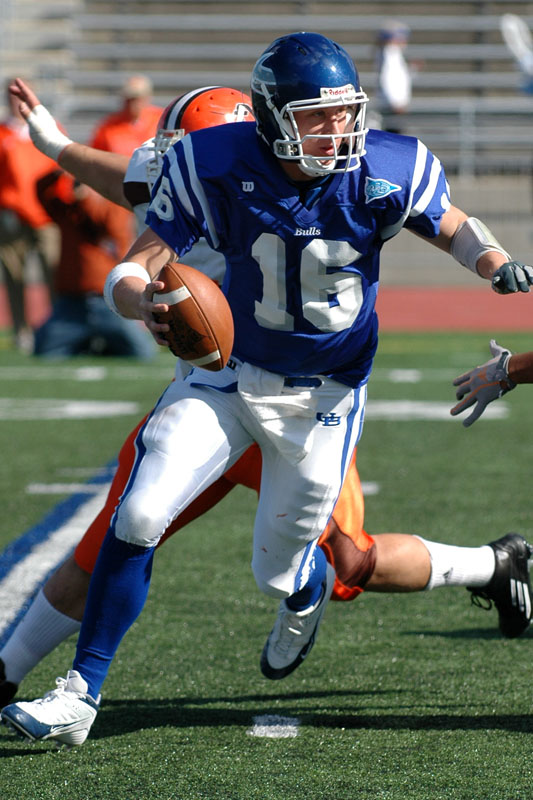 Drew Willy scrambles during the UB vs. Bowling Green game on October 15th 2005 at UB Stadium.